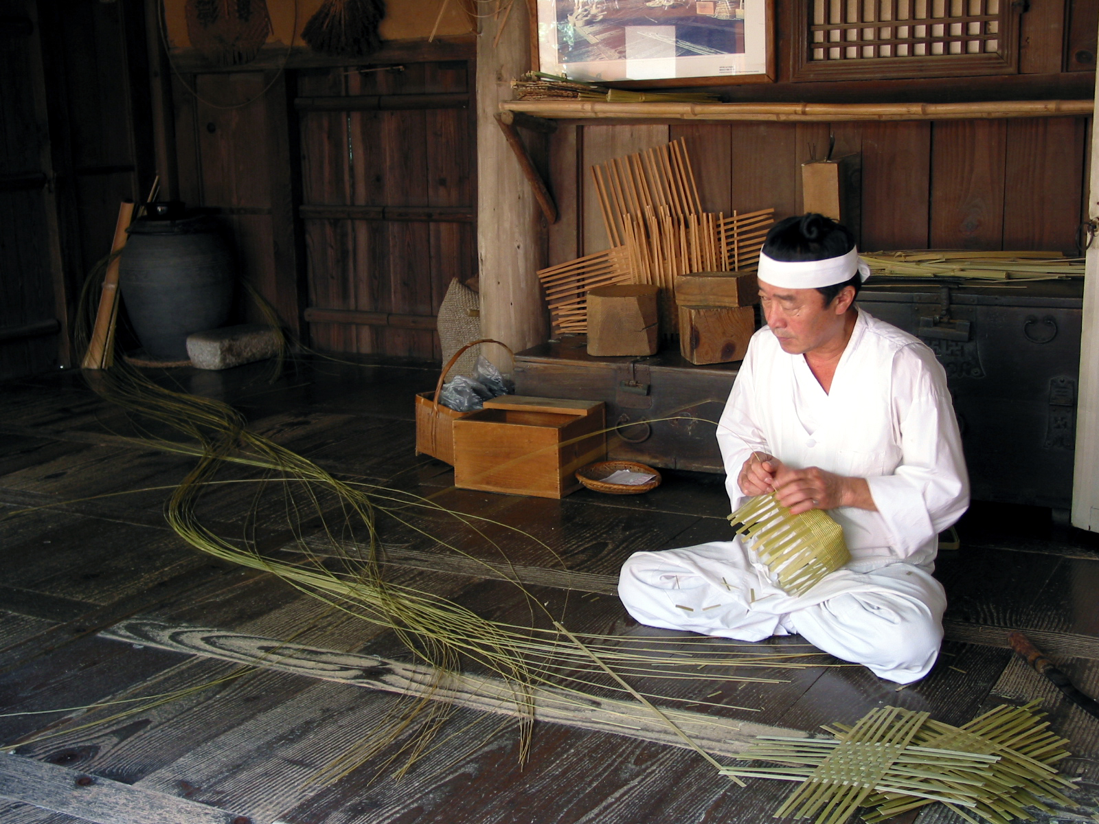 A man in hanbok, traditional Korean costume weaving a basket in Yangdong village, Gyeongju, Gyeongsangbuk-do, Korea. 경상북도 경주 양동 민속마을.